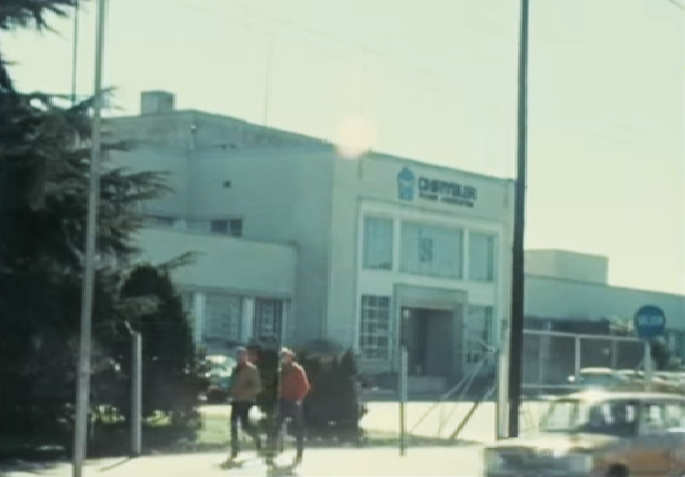 Chrysler-Fevre Argentina plant in San Justo, Buenos Aires, Argentina.